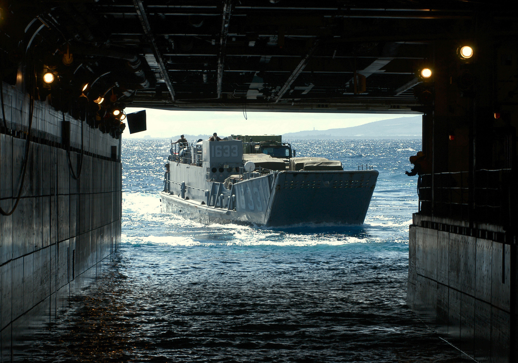 A Navy Landing Craft Utility approaches the well deck of the amphibious assault ship USS Tarawa (LHA 1) while participating in Rim of the Pacific Exercise 2004 off the coast of Hawaii on July 6, 2004. Rim of the Pacific is an international exercise that enhances the joint cooperation and proficiency of maritime and air forces of Australia, Canada, Chile, Peru, Japan, Republic of Korea, the United Kingdom and the United States.